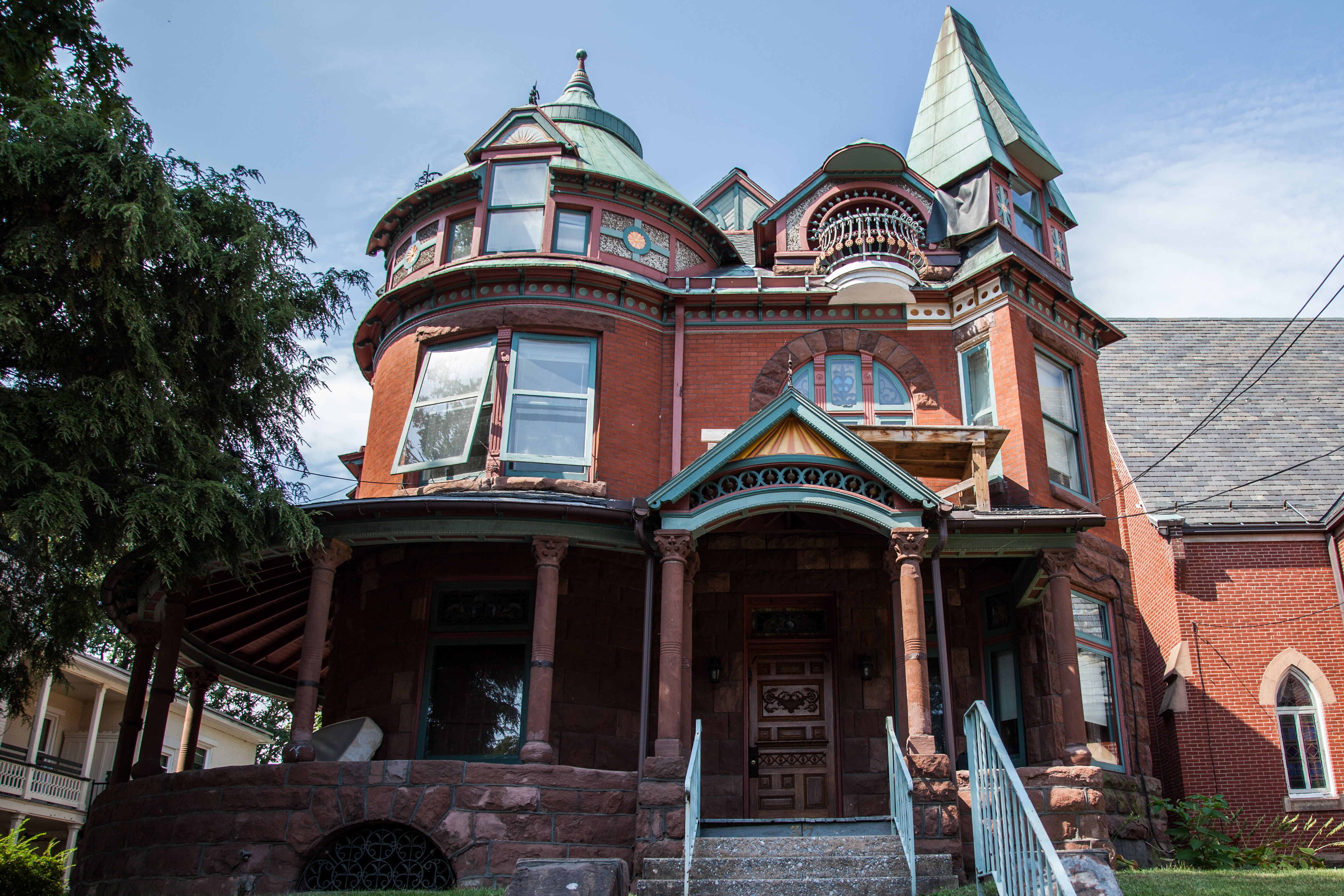 Charles and Joseph Raymond Houses, 38 and 37 North Union Street Middletown